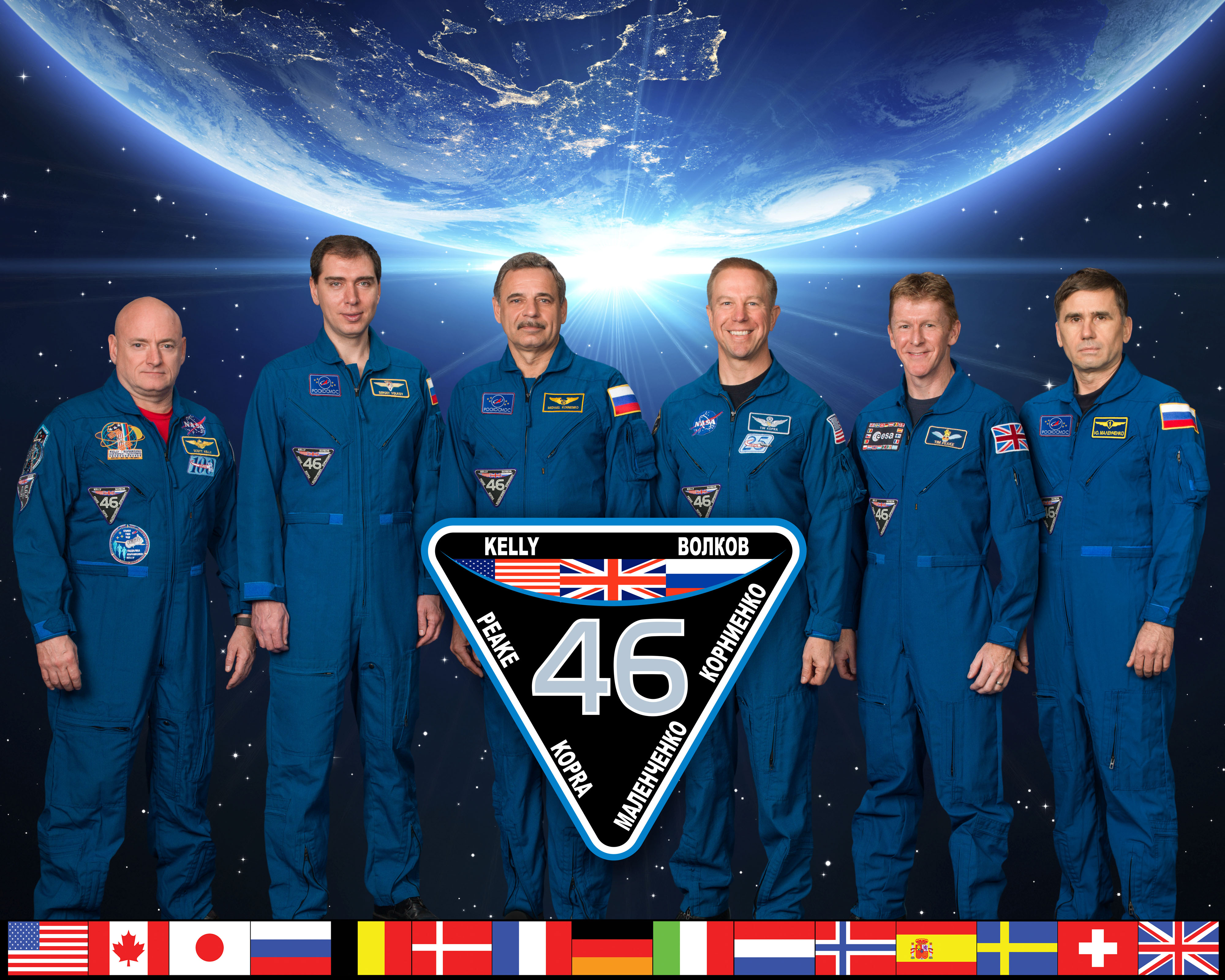 Expedition 46 crew portrait with (from left) Commander Scott Kelly and Flight Engineers Sergey Volkov, Mikhail Kornienko, Timothy Kopra, Timothy Peake and Yuri Malenchenko.